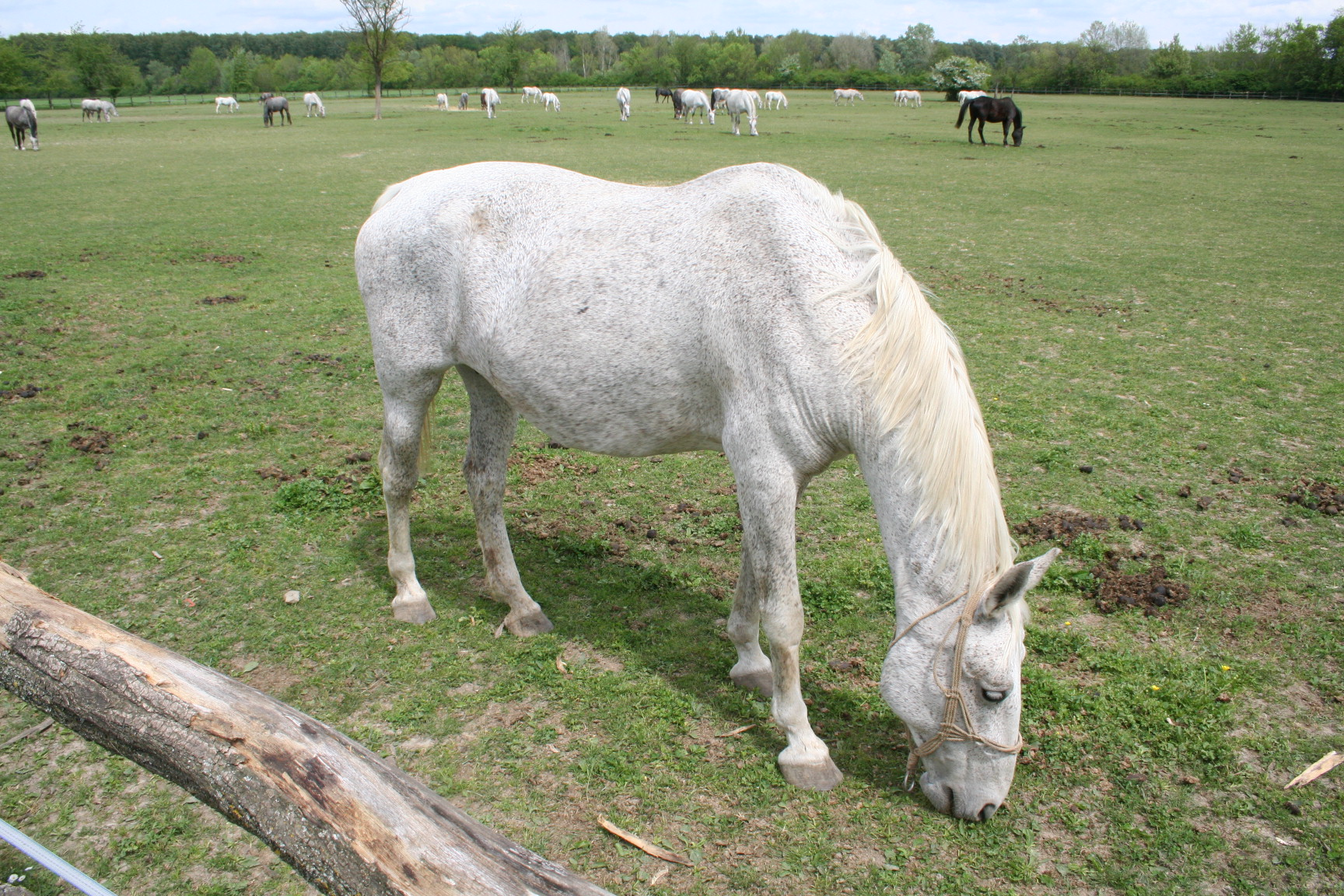 State Stud Farm in Đakovo (Croatia), location Ivandvor.